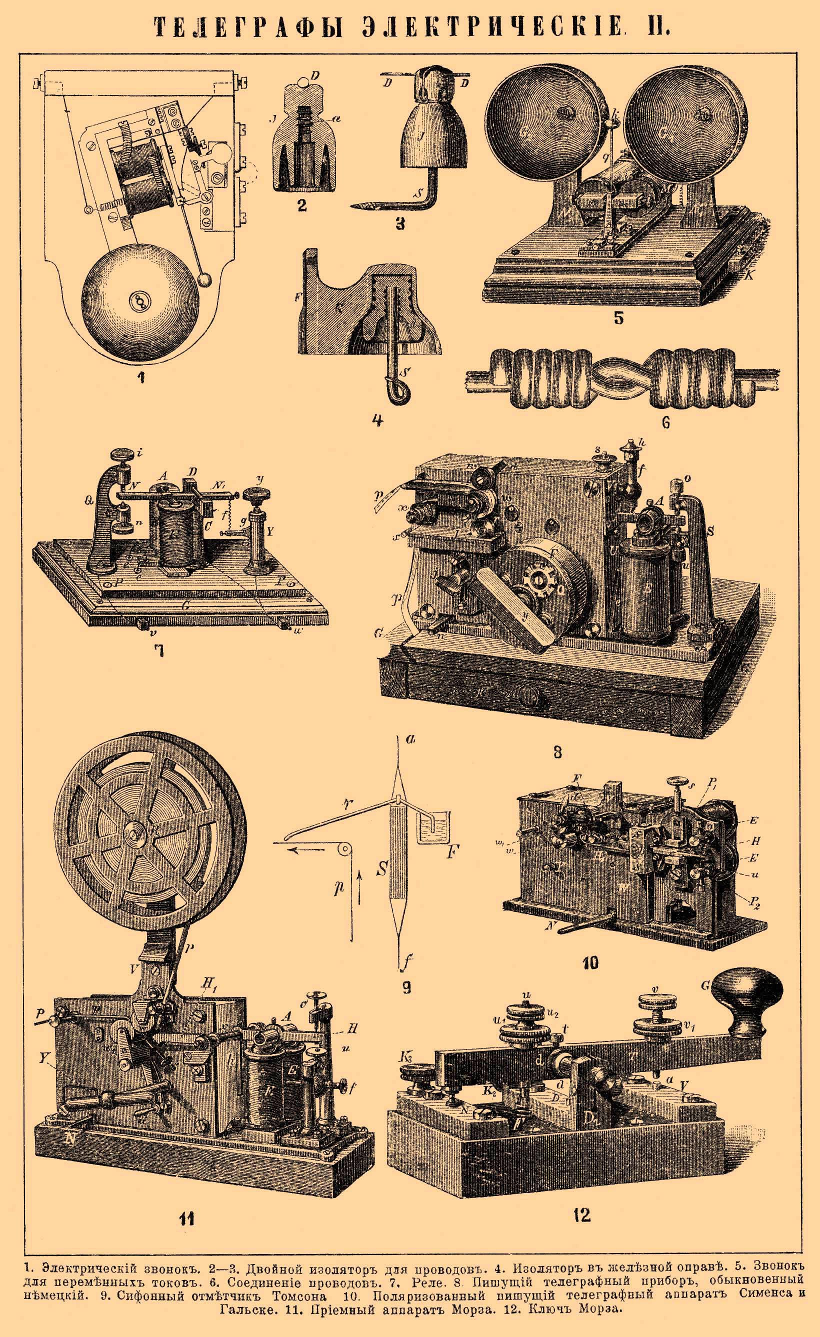 Illustration from Brockhaus and Efron Encyclopedic Dictionary(1890—1907)